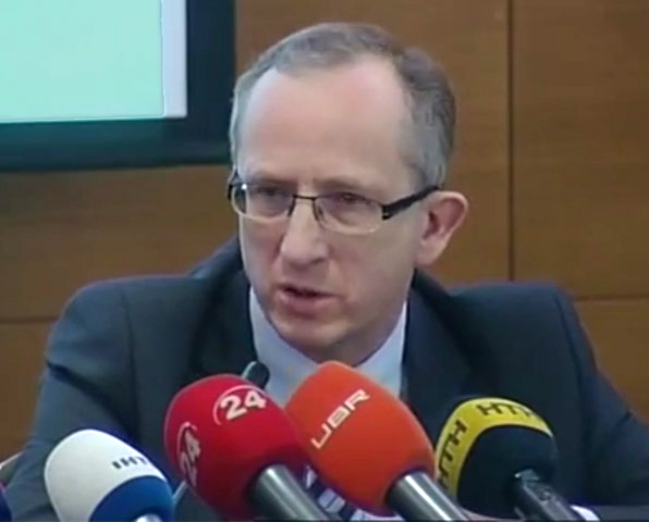 Jan Tombiński, Polish diplomat, Head of the Delegation of the European Union to Ukraine